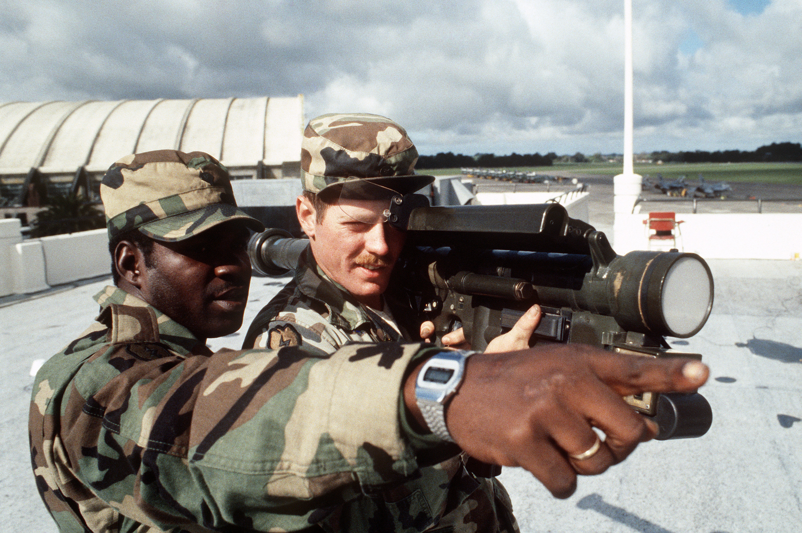 Members of the 25th Infantry Division aim an FIM-43 Redeye surface-to-air missile launcher during the joint Australian, New Zealand and US (ANZUS) Exercise TRIAD '84.